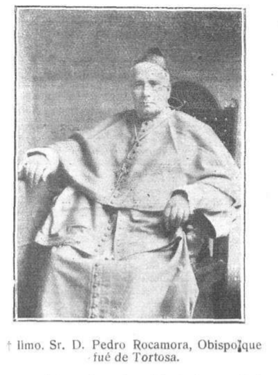 Pedro Rocamora y García